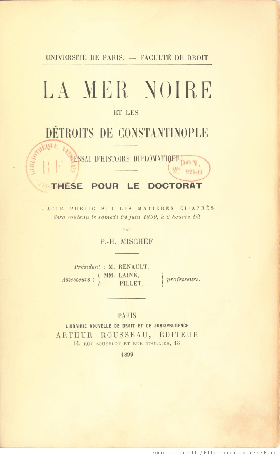 La Mer Noire et les Détroits de Conastantinople